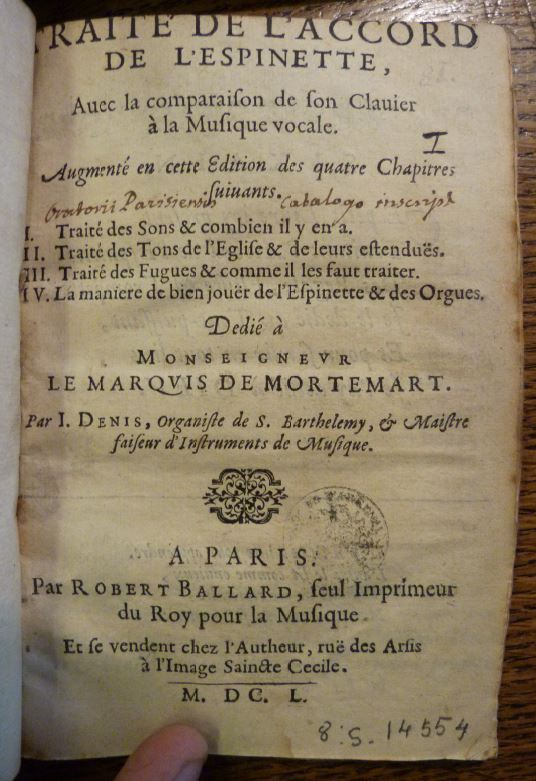 Title page of Jean II Denis's Traité de l'accord de l'épinette, 1650). (Paris, Bib. de l'Arsenal.